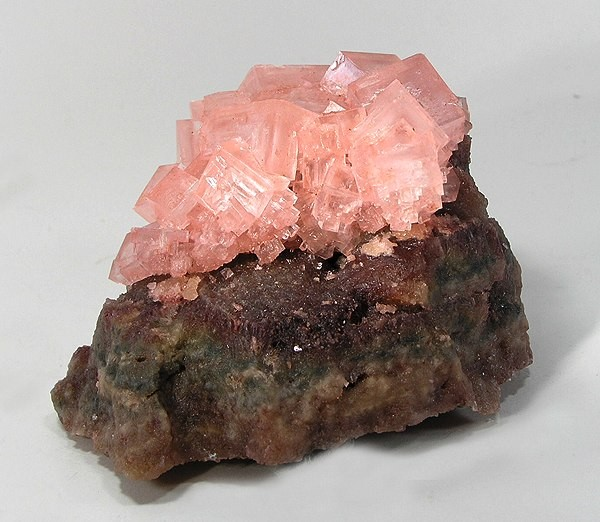 Halite, Nahcolite Locality: Searles Lake, San Bernardino County, California, USA (Locality at ) Okay, halite is salt, but for one thing, it is just as legitimate a mineral as any other, even if you CAN eat it (not this though - it contains bacteria so don't lick it!). This batch of gorgeous halite specimens was mined recently in California, and they are REALLY distinctive. Look at the amazingly fine structure of the crystals and beautiful bright pink color! But more than that, they have this wonderful contrast with a uniquely new matrix covered with minute nahcolite (which is sodium bicarbonate; isn't that what you take for an upset stomach? Okay, so after you get sick licking the halite you can lick the matrix to get better!). Bottom line: it is just a plain stunningly pretty mineral specimen from a recent find . Note: sensitive to humidity. 8.5 x 6.0 x 5.9cm